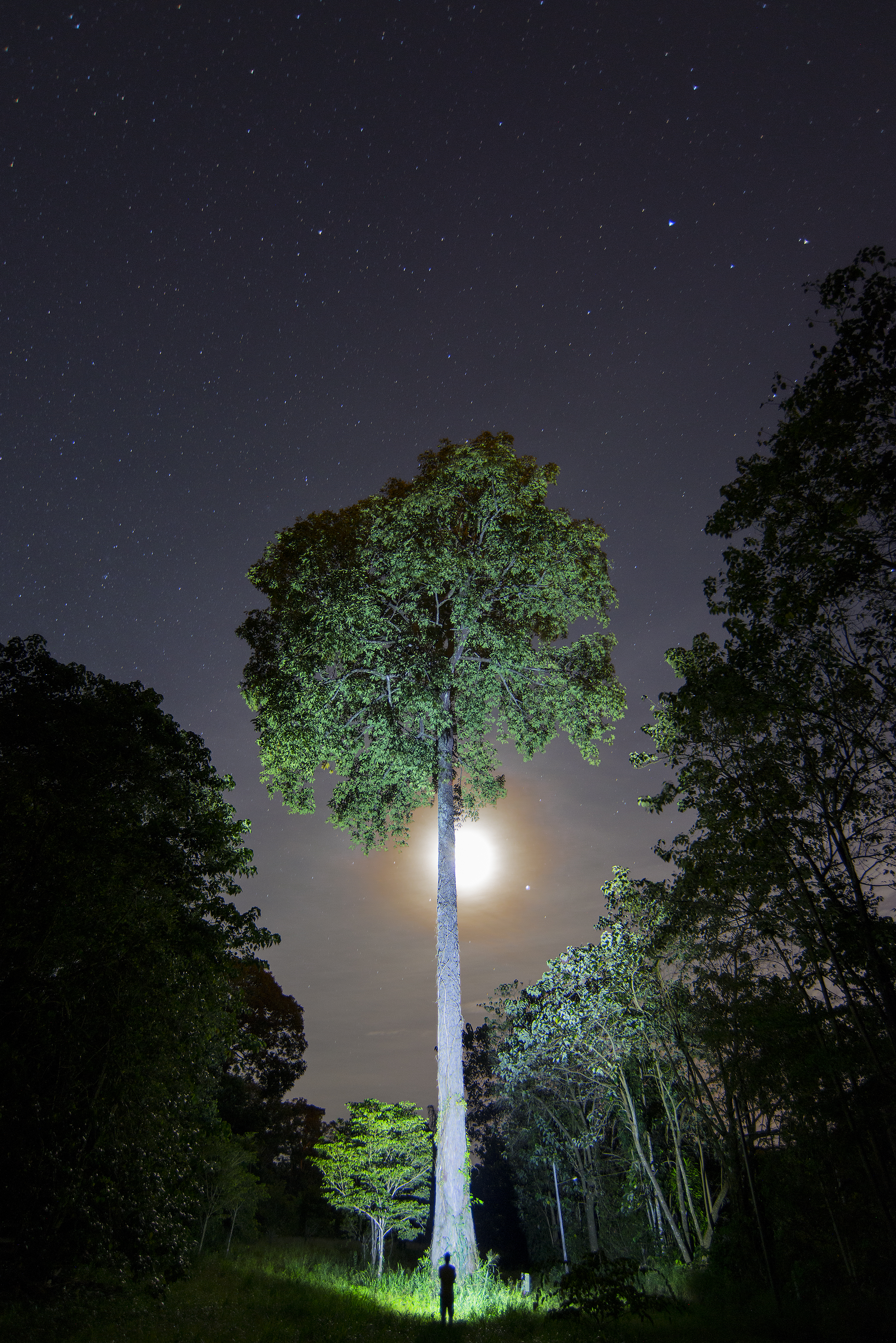 Tha Brazil Nut Tree is the simbol of the Amazon Tropical Forest. Hardly we can admire her imponence and beauty as a whole. The picture was taken in a clearing inside the forest, where we could see one fantastic individual alone.